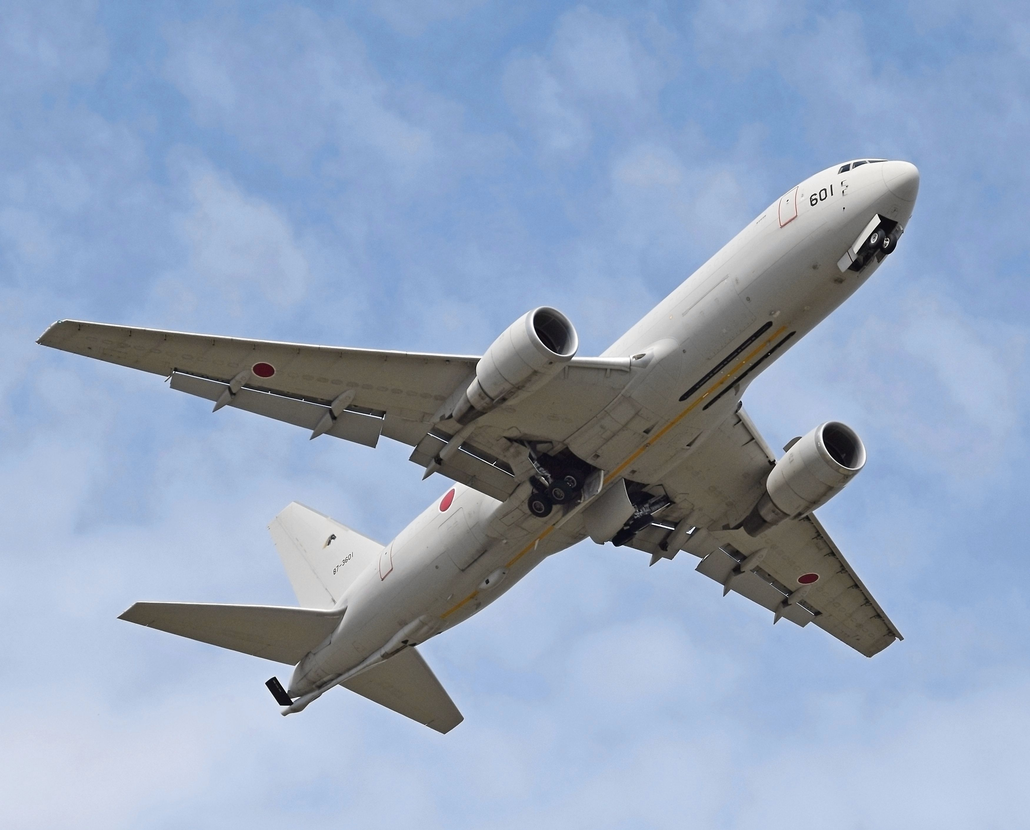 Boeing KC-767J of the JASDF (code 87-3601) at the 2017 Royal International Air Tattoo, RAF Fairford, England.